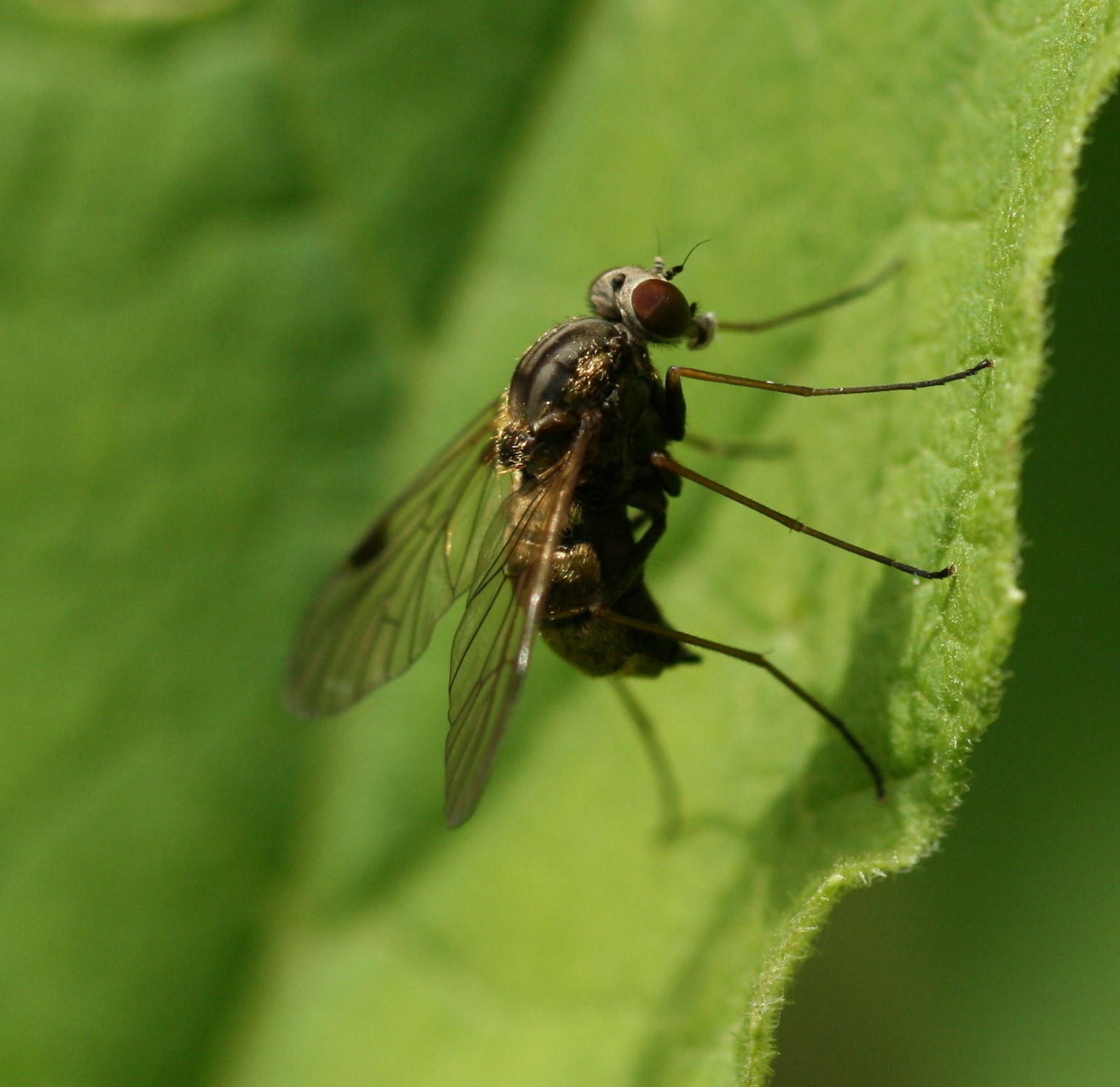 A species of Snipe Fly.